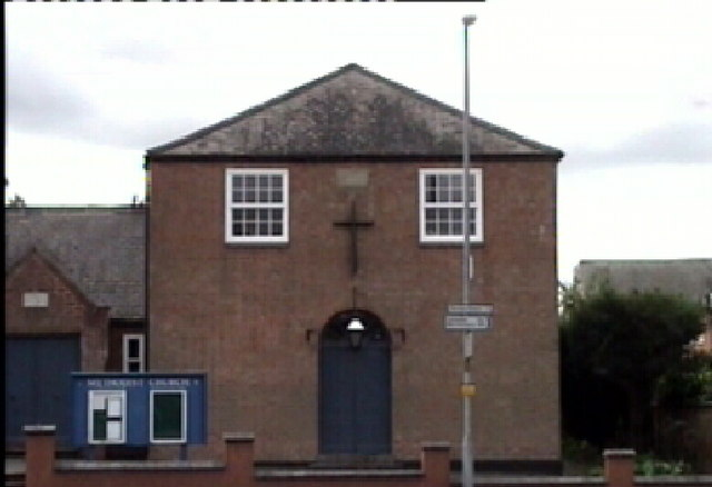 Great Glen Methodist Church This Church was built in 1827. The extension on the left of picture was built in 1989 to join the church to the old school building.